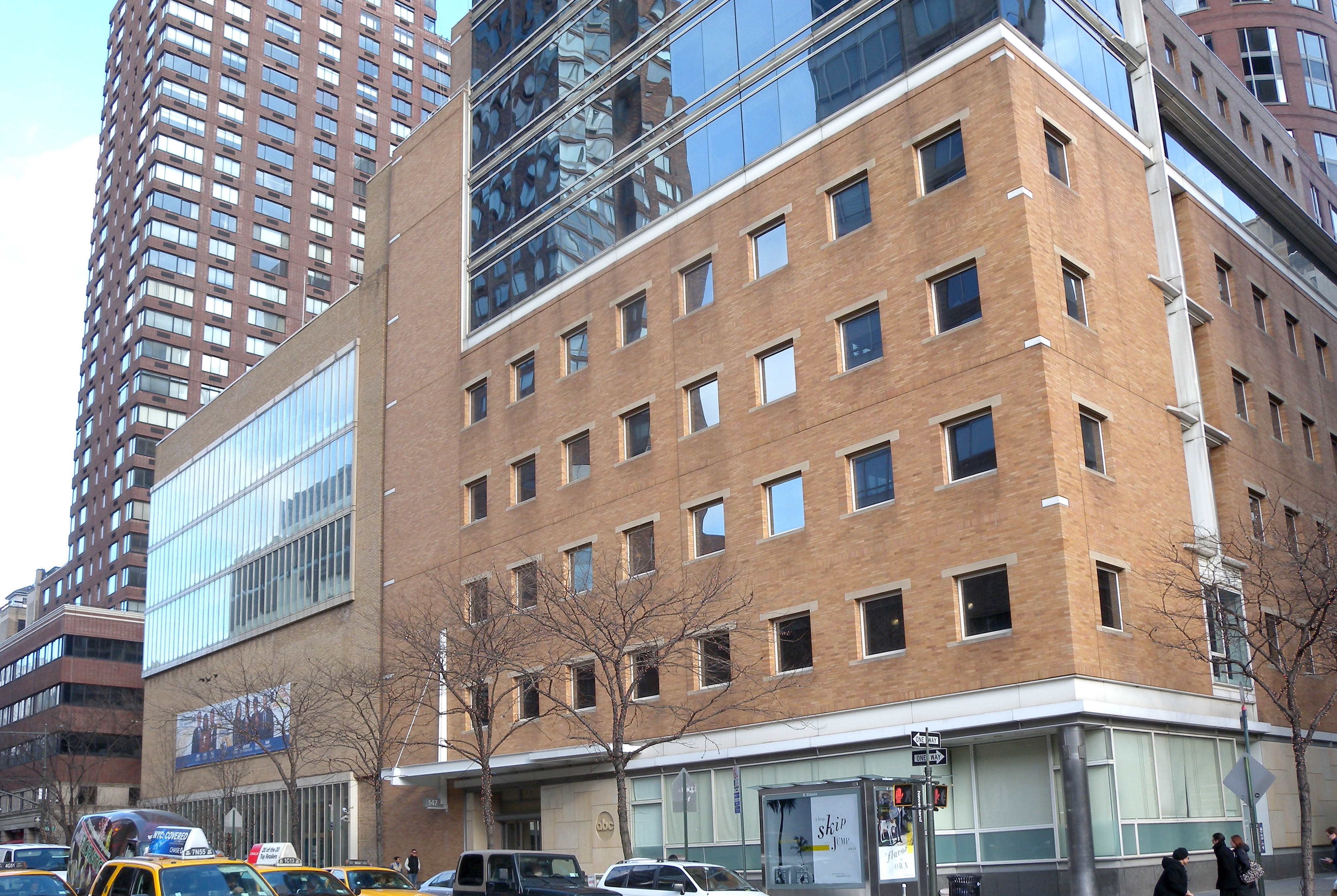 Looking east across 9th Avenue and 66th Street at WABC-TV studio on Columbus Avenue on a sunny afternoon.